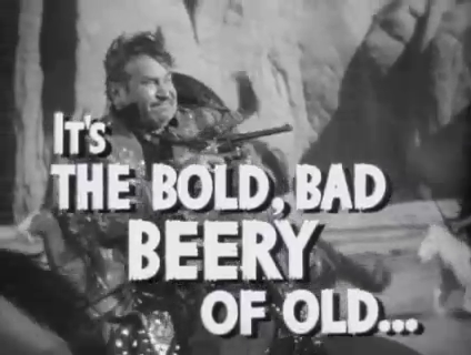 Wallace Beery in the film The Bad Man (1941), directed by Richard Thorpe.